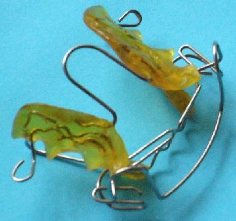 Bimler´s elastic oral adaptor of type C, for class III early treatment